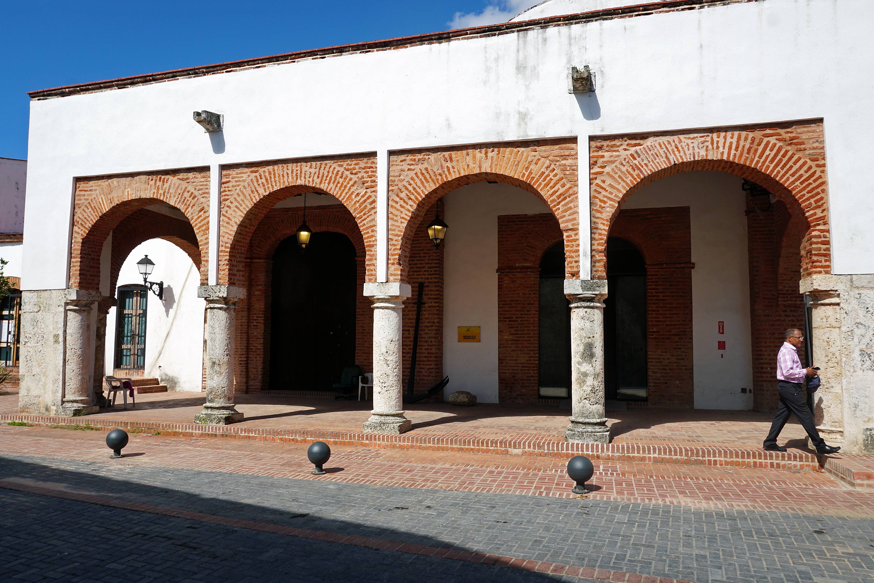 Atarazanas Reales Naval Museum, Santo Domingo's Colonial City, Dominican Republic.